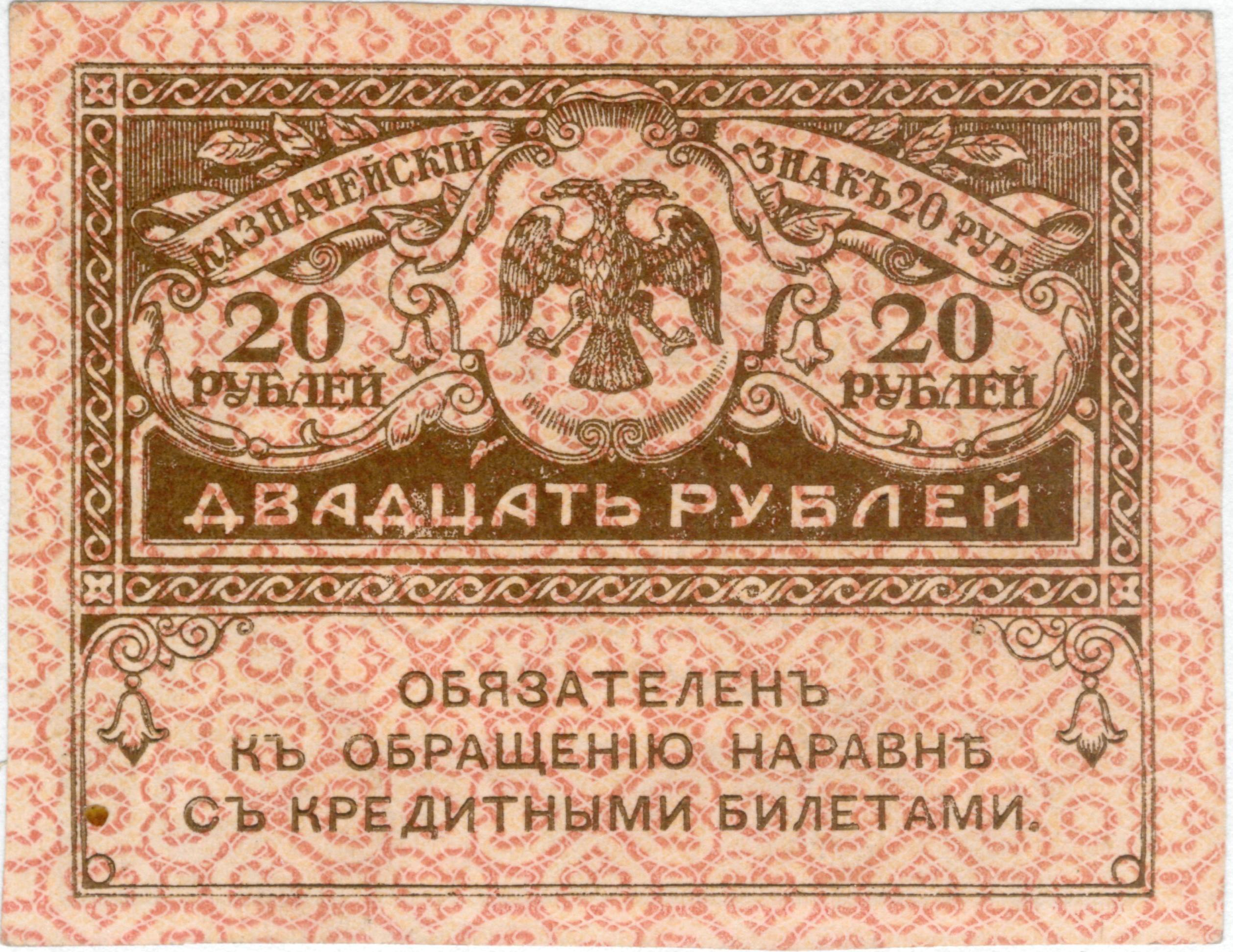 'Kerenki' of Russia, 20 roubles. Face. Natural colours